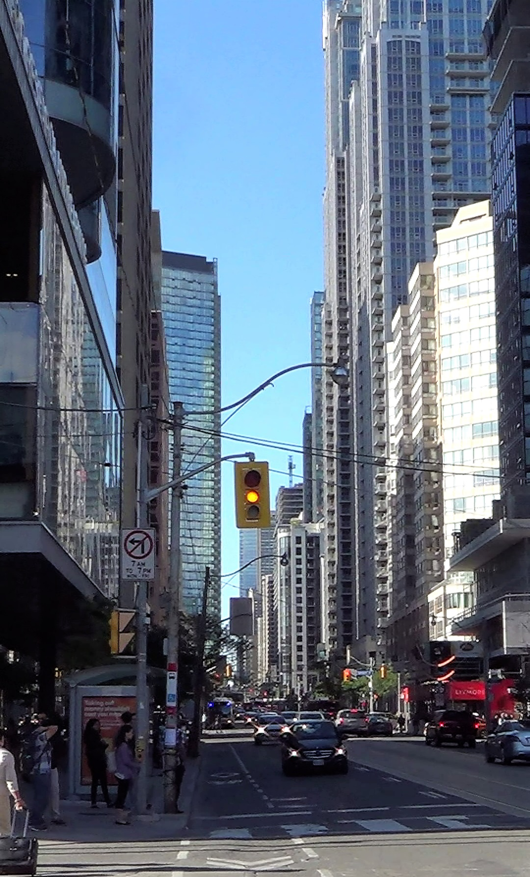 Bay Street highrise canyon looking north from Elm Street